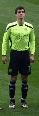 Paul Scharner lining up for Wigan Athletic against Chelsea.